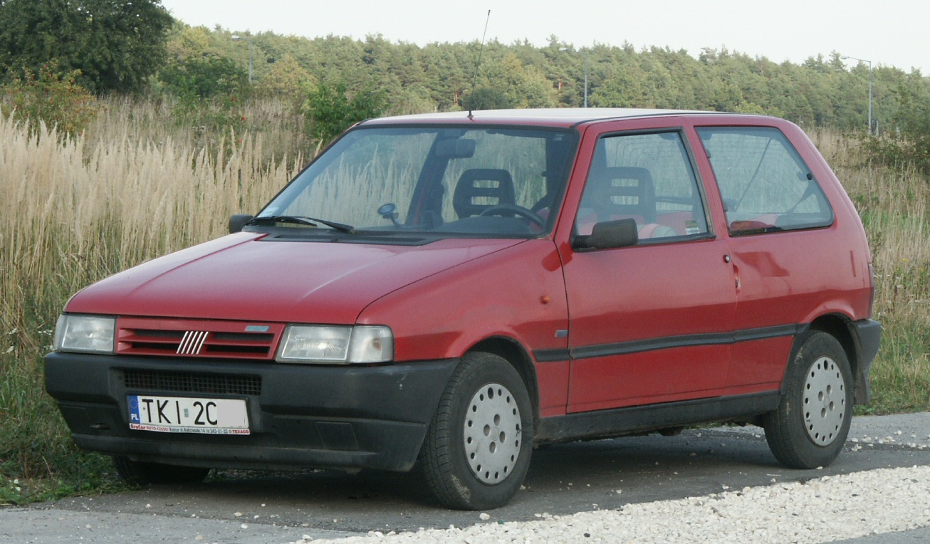 Fiat Uno 2nd series (probably Polish-made).